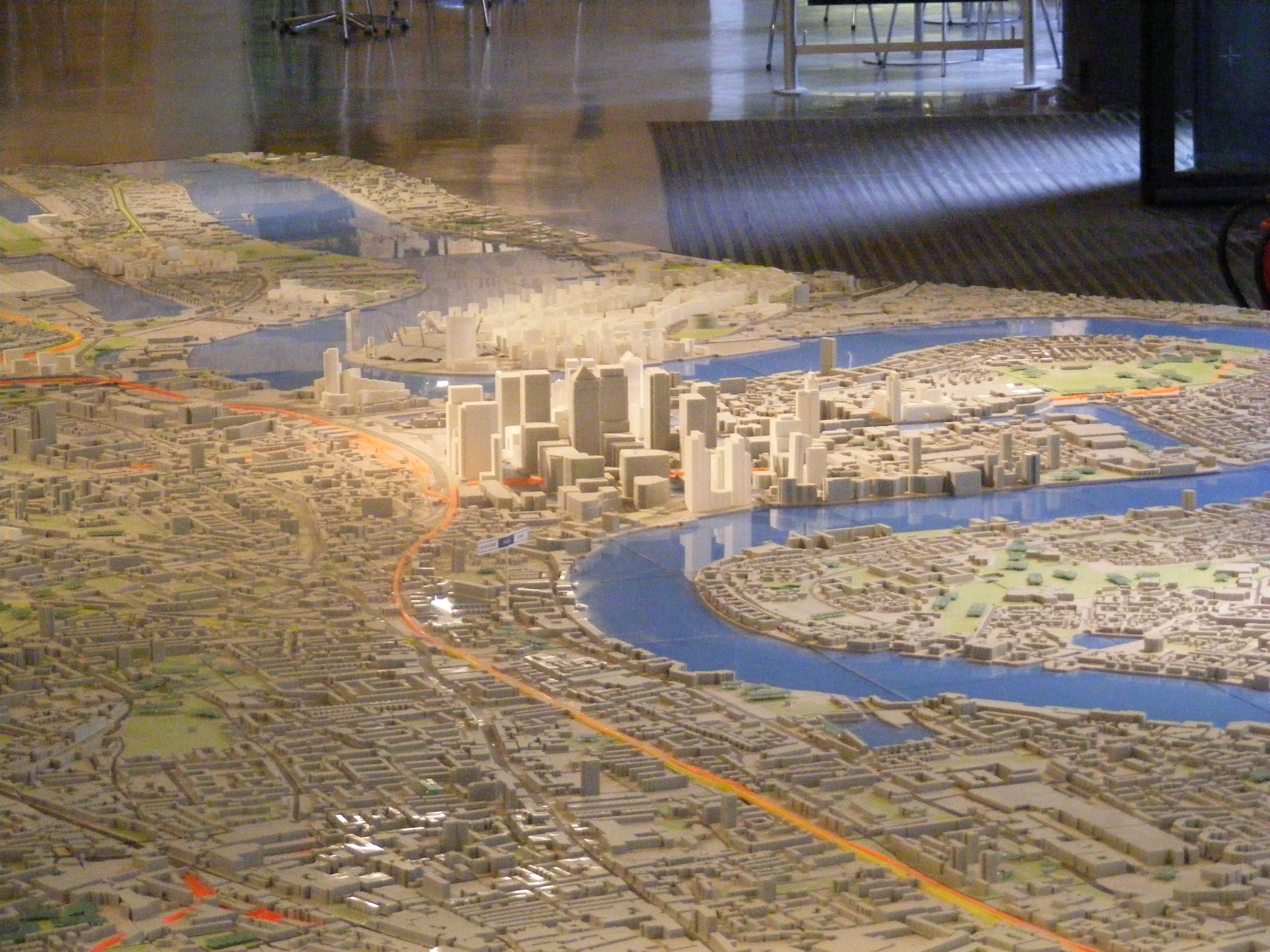 Canary Wharf from the west. Part of a set. To see this set click here.